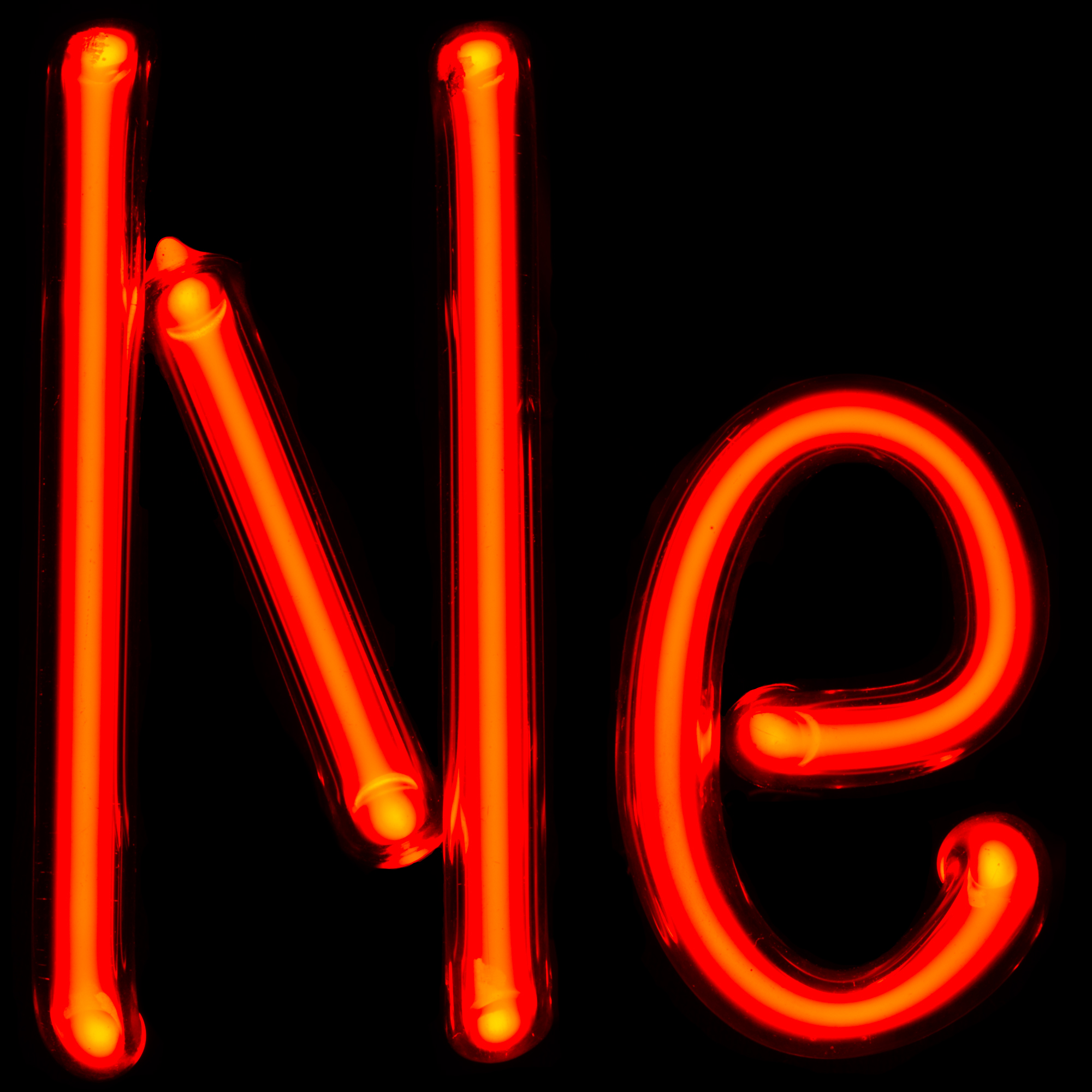 Image of a neon filled discharge tube shaped like the element’s atomic symbol "Ne". Example of neon lighting. The letter "N" is about 75 cm tall.